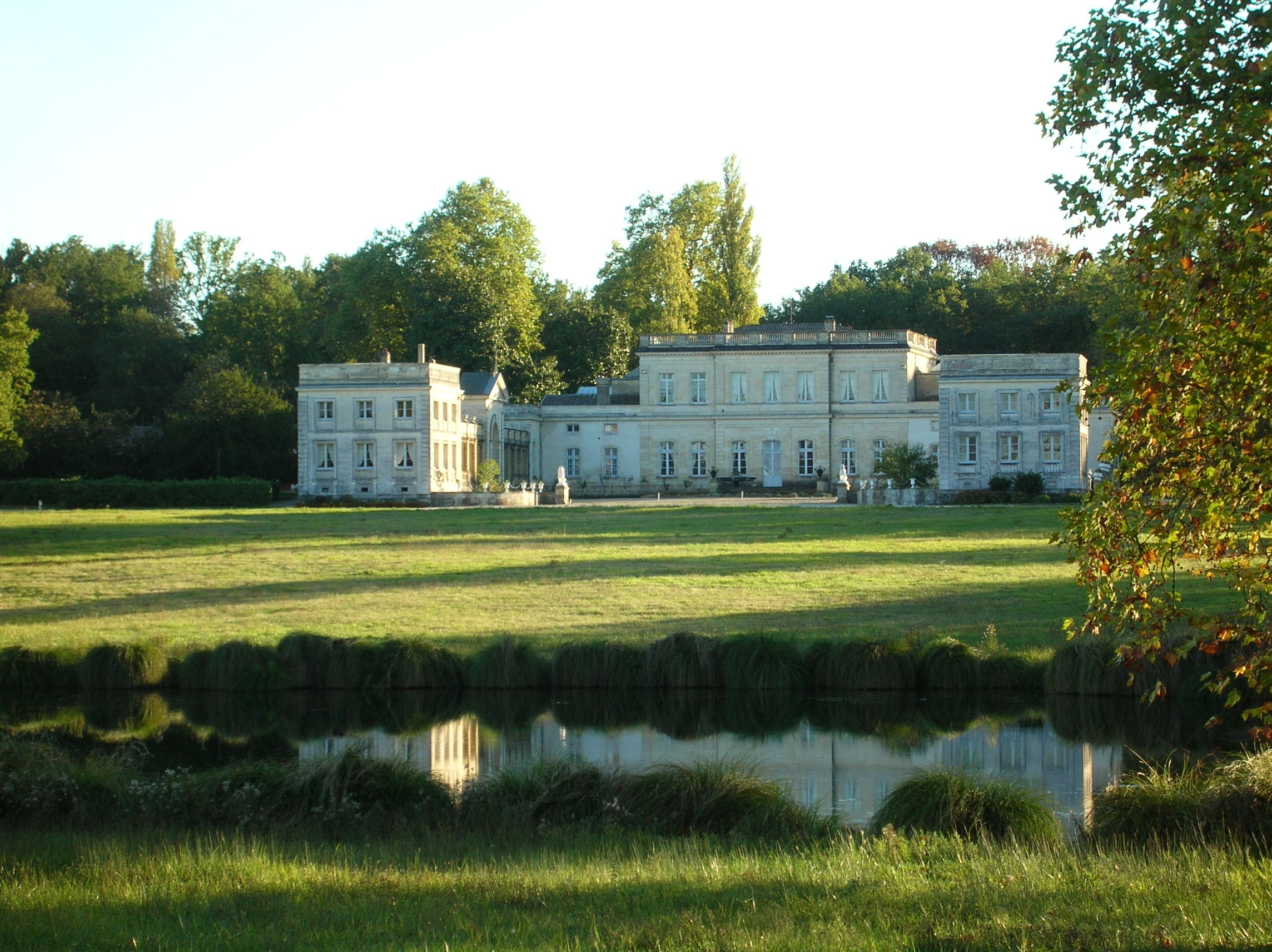 Chateau Filhot in Sauternes, France